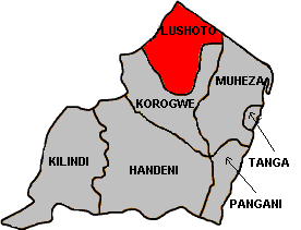 Created by Andrew Coe